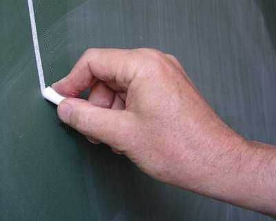 stick-slip effect with a shalk on a blackboard